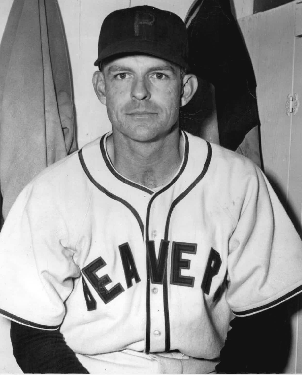 Professional baseball player Tommy Bridges